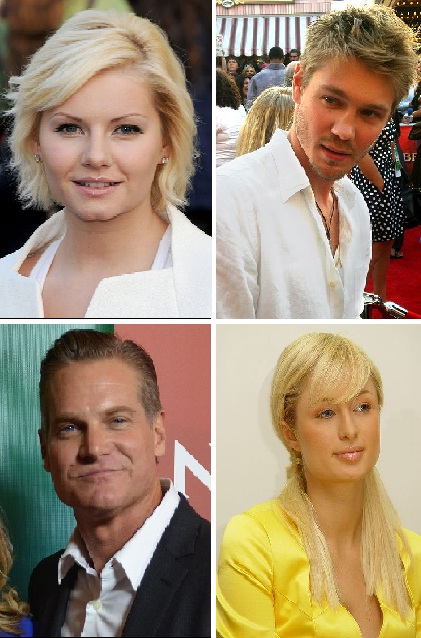 Cast members of House of Wax (2005 film), (left to right, starting with the top row) Elisha Cuthbert, Chad Michael Murray, Brian Van Holt and Paris Hilton.